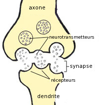 * A blank version of this image is available here This image was copied from fr. The original description was: Présente sur la page : Copiée à partir du wiki anglophone : Légendes traduites par Arnaudus D'après le wiki en:, domaine public.